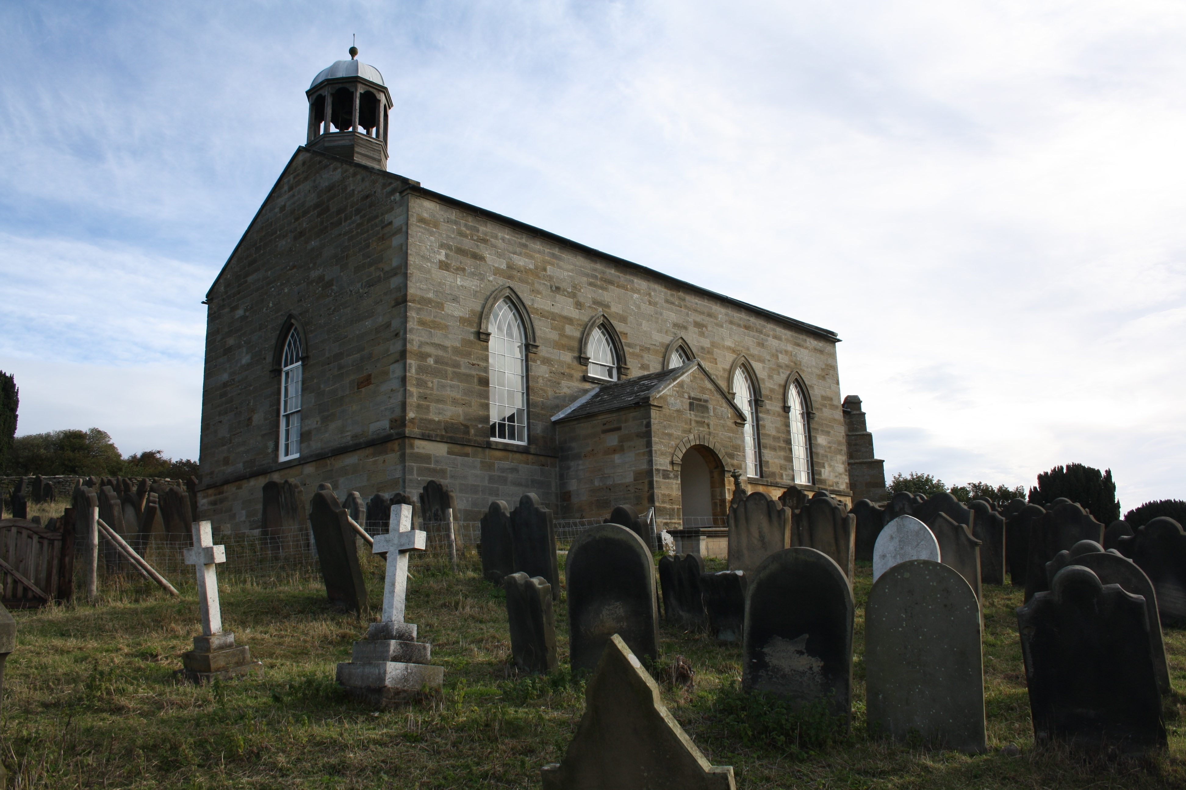 St Stephens Church, Robin Hoods Bay